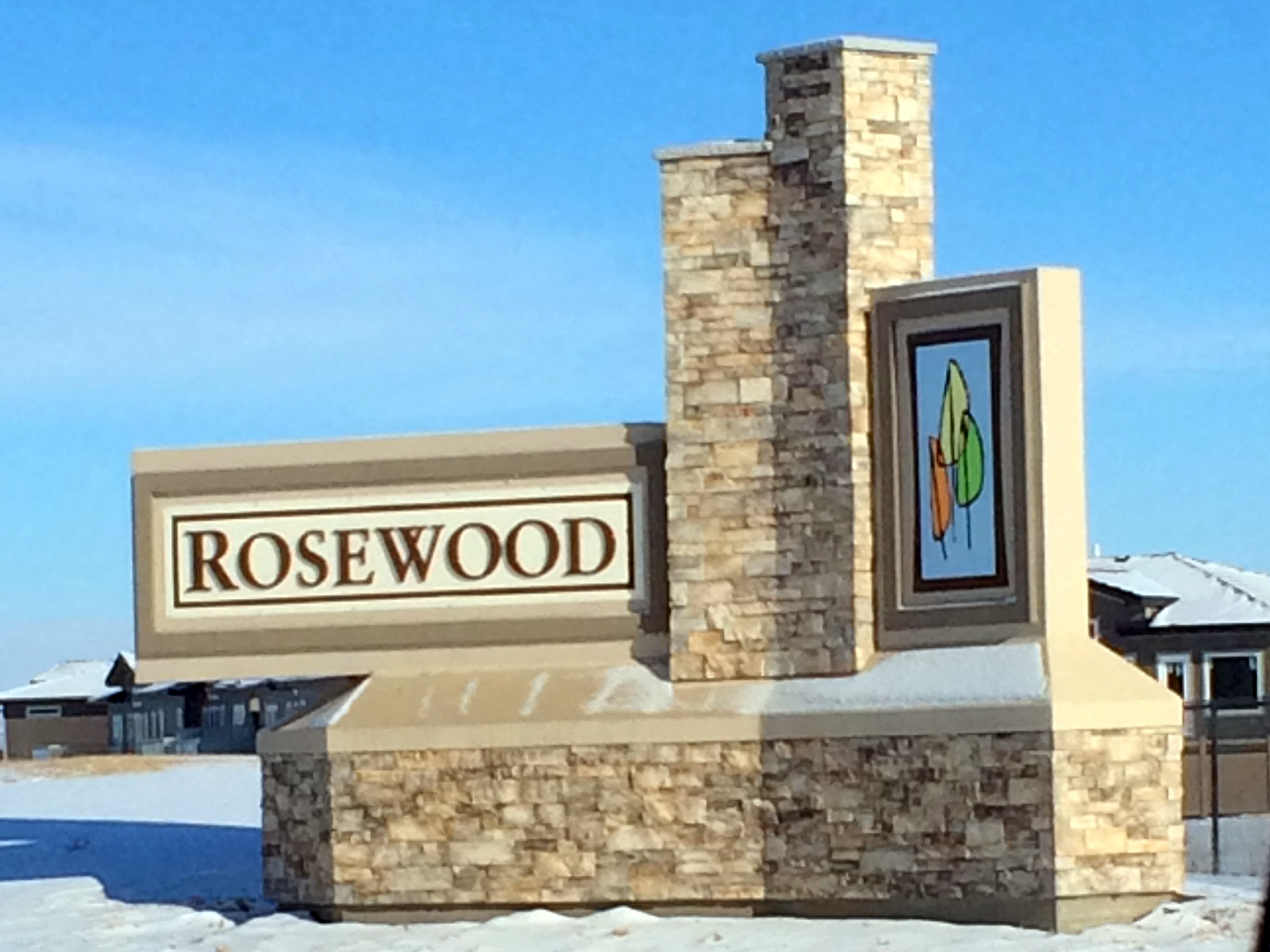 Entrance sign for the Rosewood neighbourhood on the east side of Saskatoon, Saskatchewan, Canada.